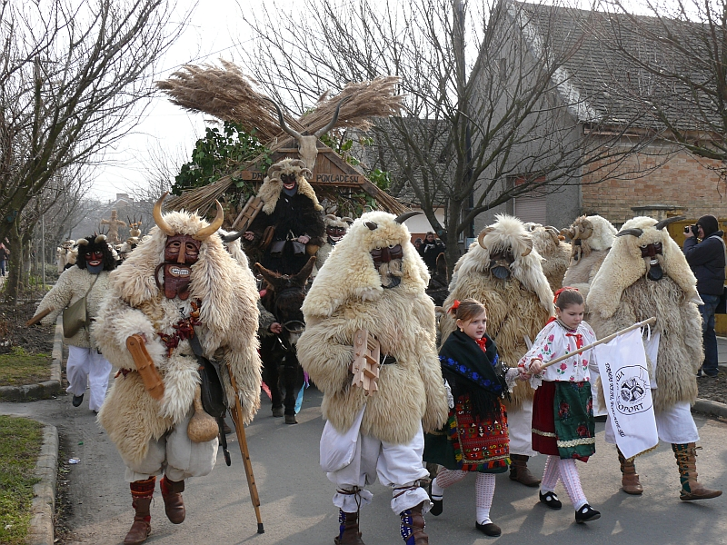 Busójárás in Mohács; Hungary; 2009